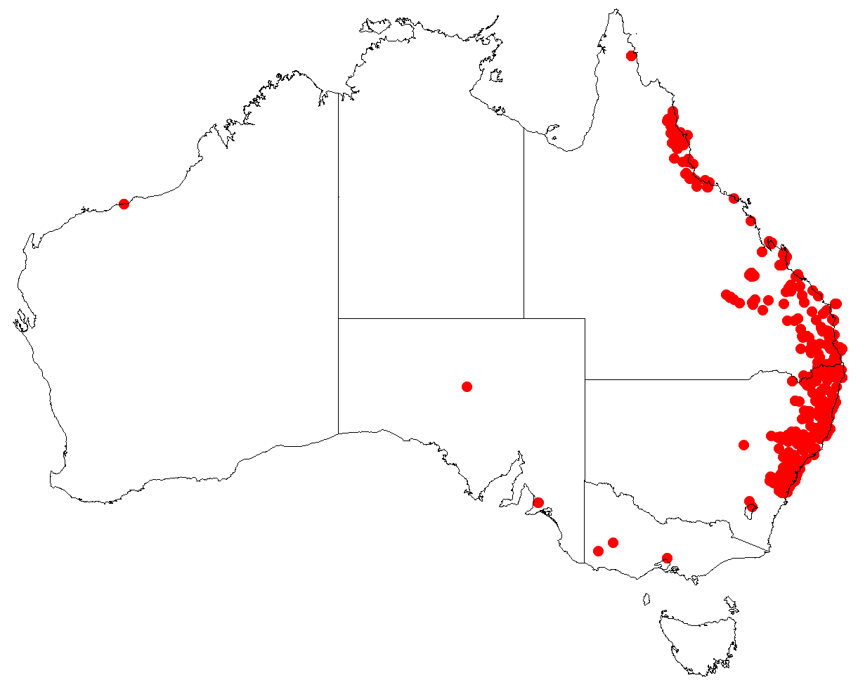 Allocasuarina torulosa Occurrence data from AVH